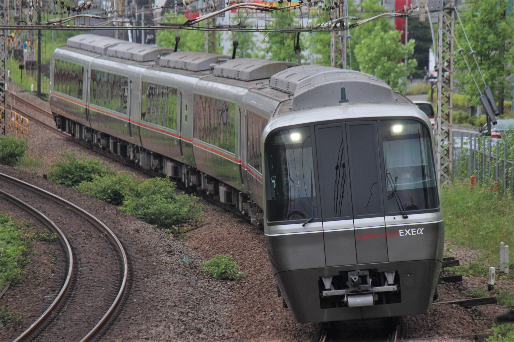 A refurbished Odakyu 30000 series "EXEα" six-car EMU with gangwayed end leading